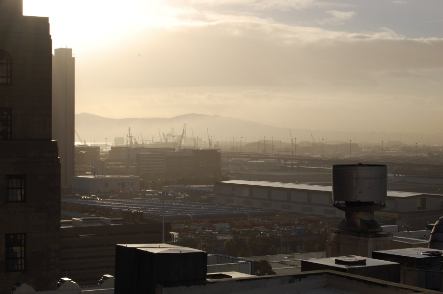 The view from the Mutual Building in Darling Street in Cape Town, once uninterrupted, is now obscured by the General Post Office, that was constructed shortly afterwards.